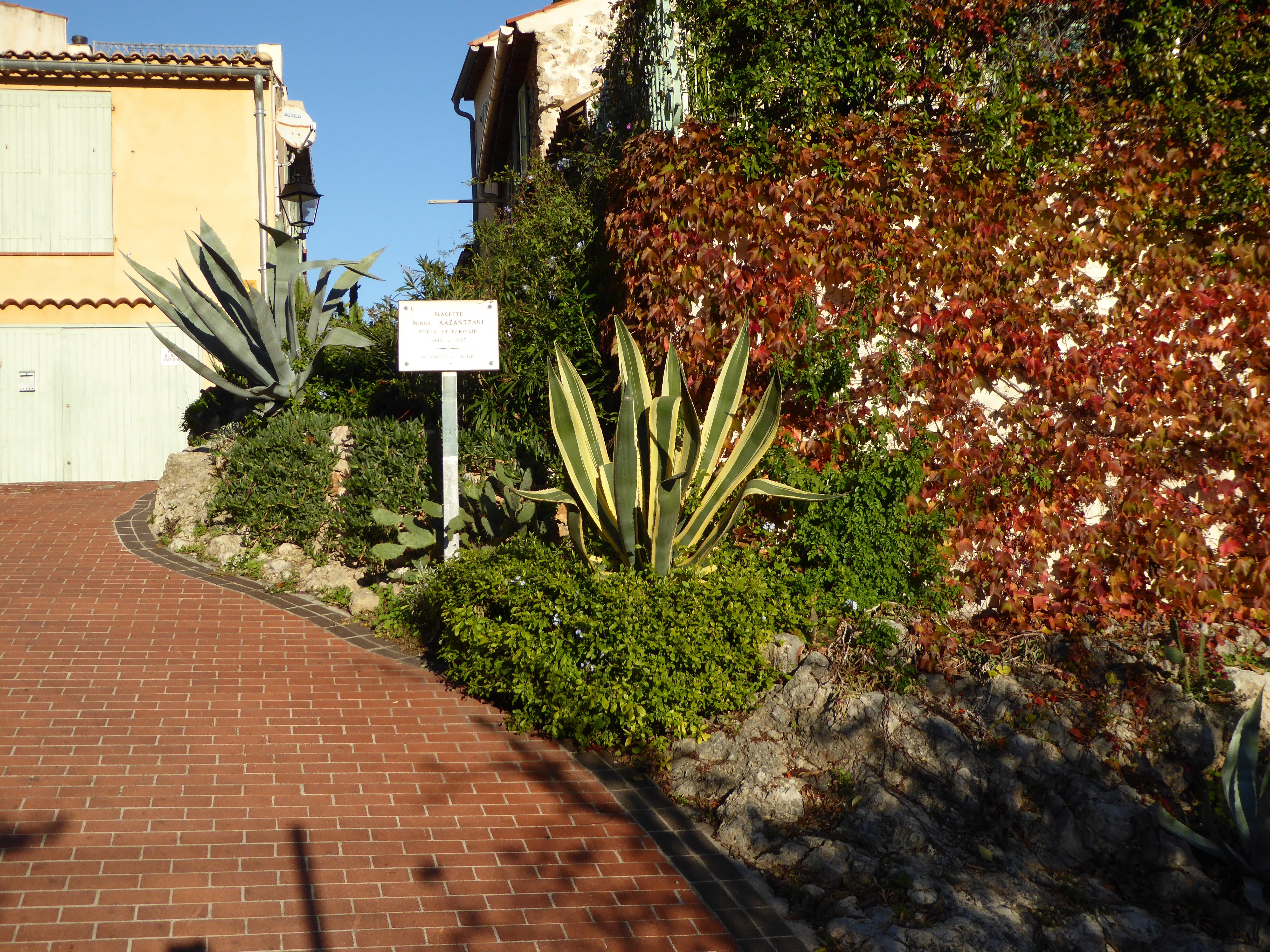 Placette Nikos Kazantzakis, Antibes